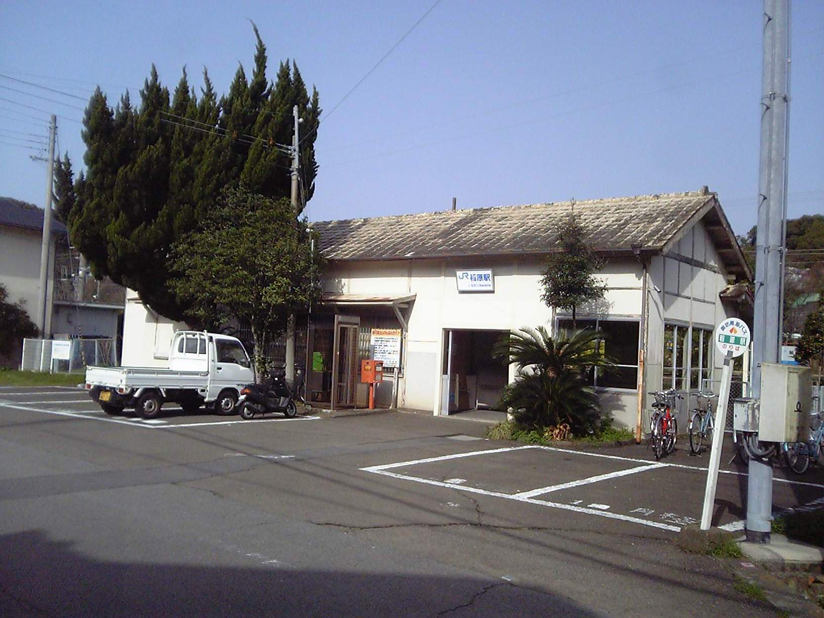 InaharaStation